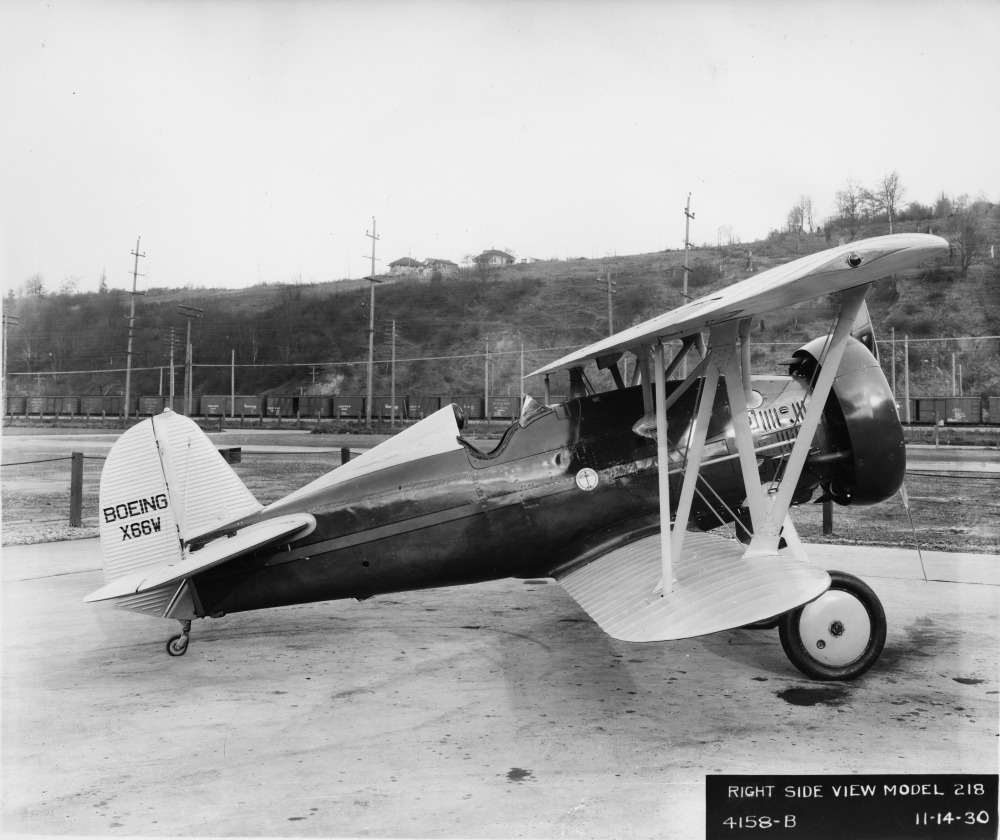 PictionID:41898256 - Title:Ray Wagner Collection Image - Catalog:16_000785 Boeing 218 NX66W Seattle 14Nov30 mfr 4158-B - Filename:16_000785 Boeing 218 NX66W Seattle 14Nov30 mfr 4158-B.tif - - Ray Wagner was Archivist at the San Diego Air and Space Museum for several years and is an author of several books on aviation --- ---Please Tag these images so that the information can be permanently stored with the digital file.---Repository: San Diego Air and Space Museum